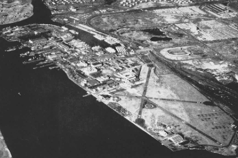 Aerial view of the Naval Air Materiel Center in Philadelphia, Pennsylvania (USA), Mustin Field, Philadelphia, Pennsylvania (USA), in the mid-1940s. The Philadelphia Municipal Stadium is visible to the right (today John F. Kennedy Stadium). The NAMC was known as the Naval Aircraft Factory from 1918 to 1945. The Philadelphia Naval Shipyard is visible in the background, the basin on the right is known as the "Reserve basin".